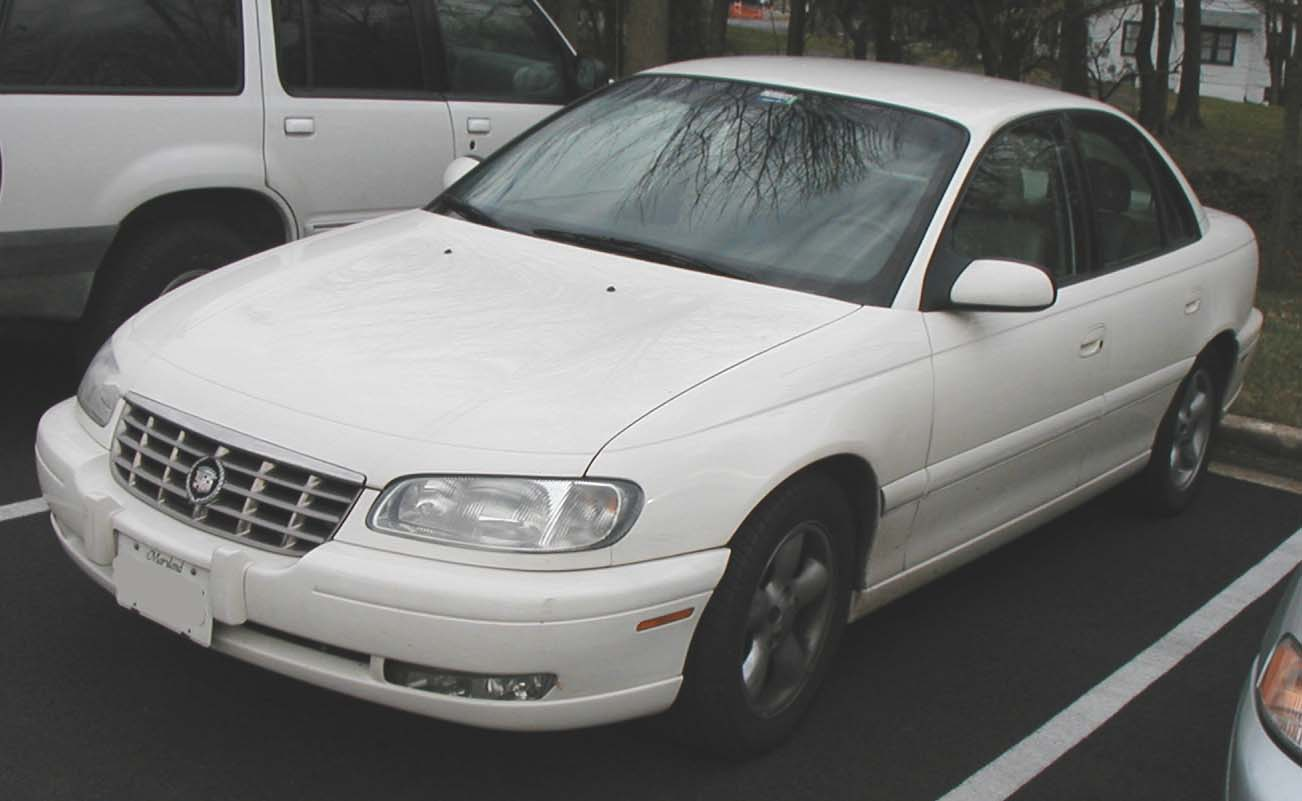 1997-1999 Cadillac Catera photographed in USA.